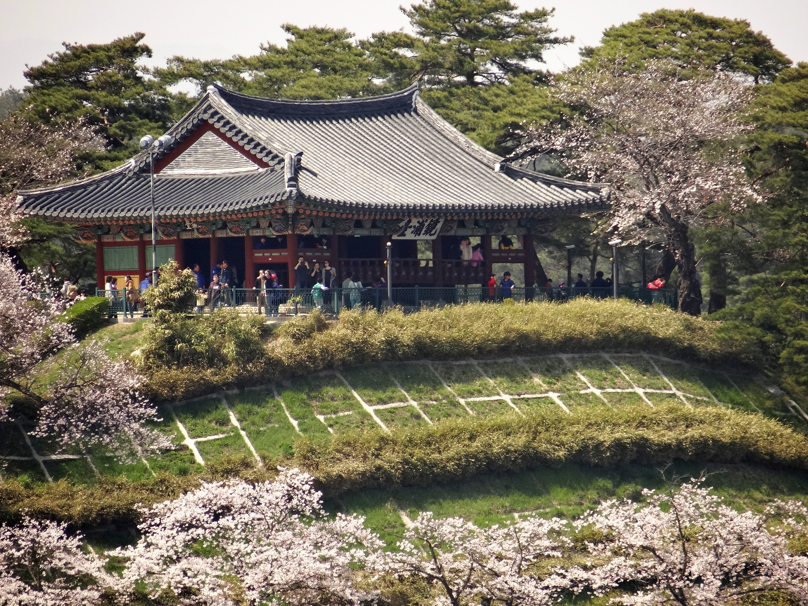 The pavilion in the city of Gangneung